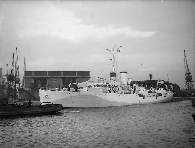 HMS Dianella (corvette). 25 January 1943, Royal Albert Dock. Port bow view.